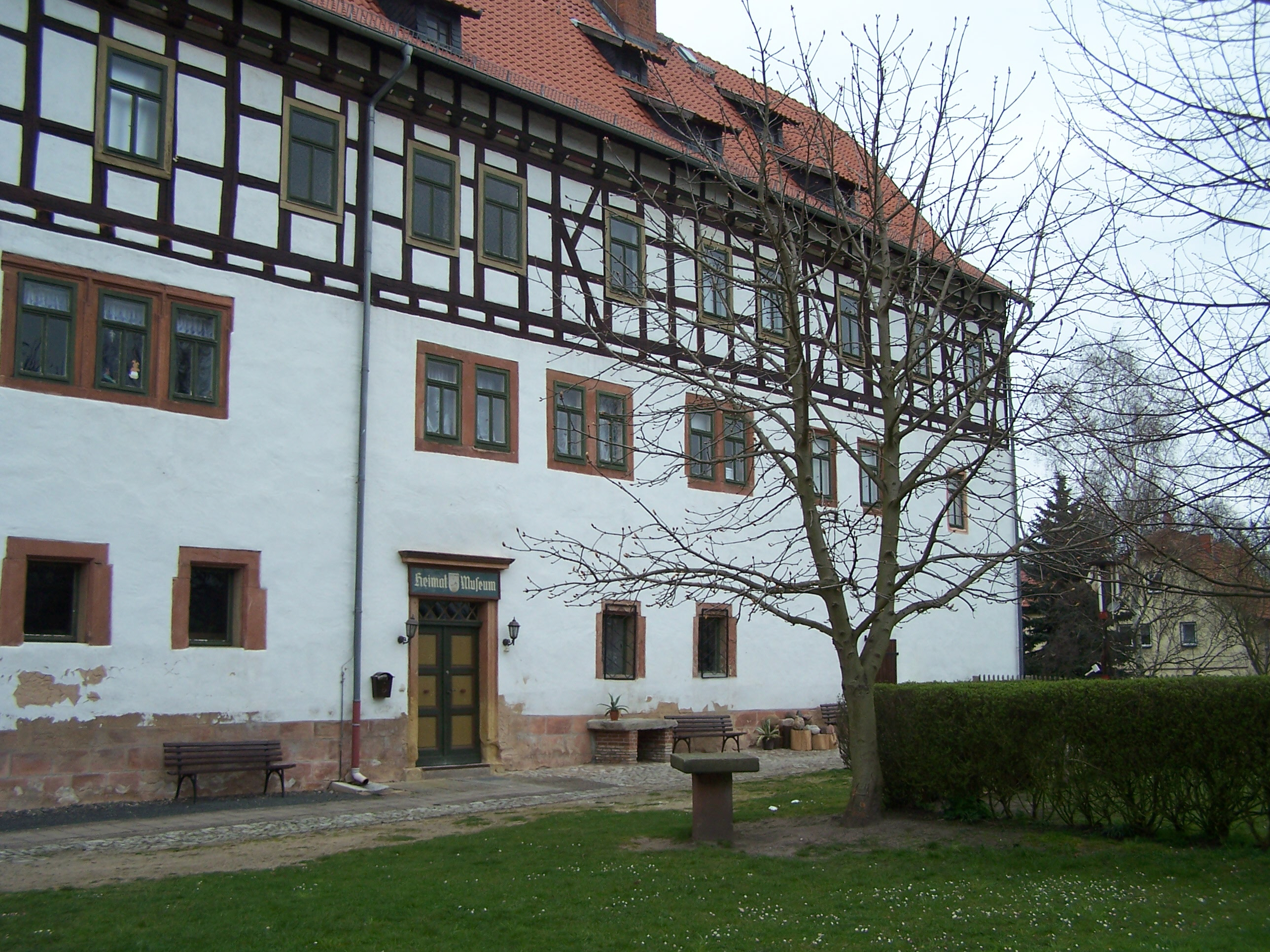 Gerstungen, Castle.